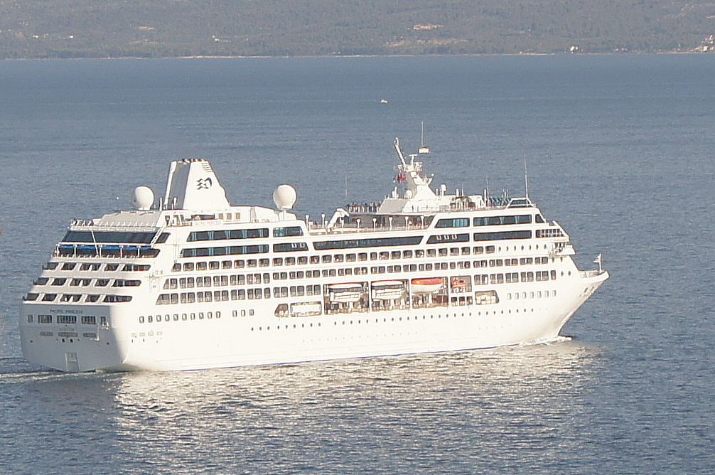 Pacific Princess in Split on 2011-07-08